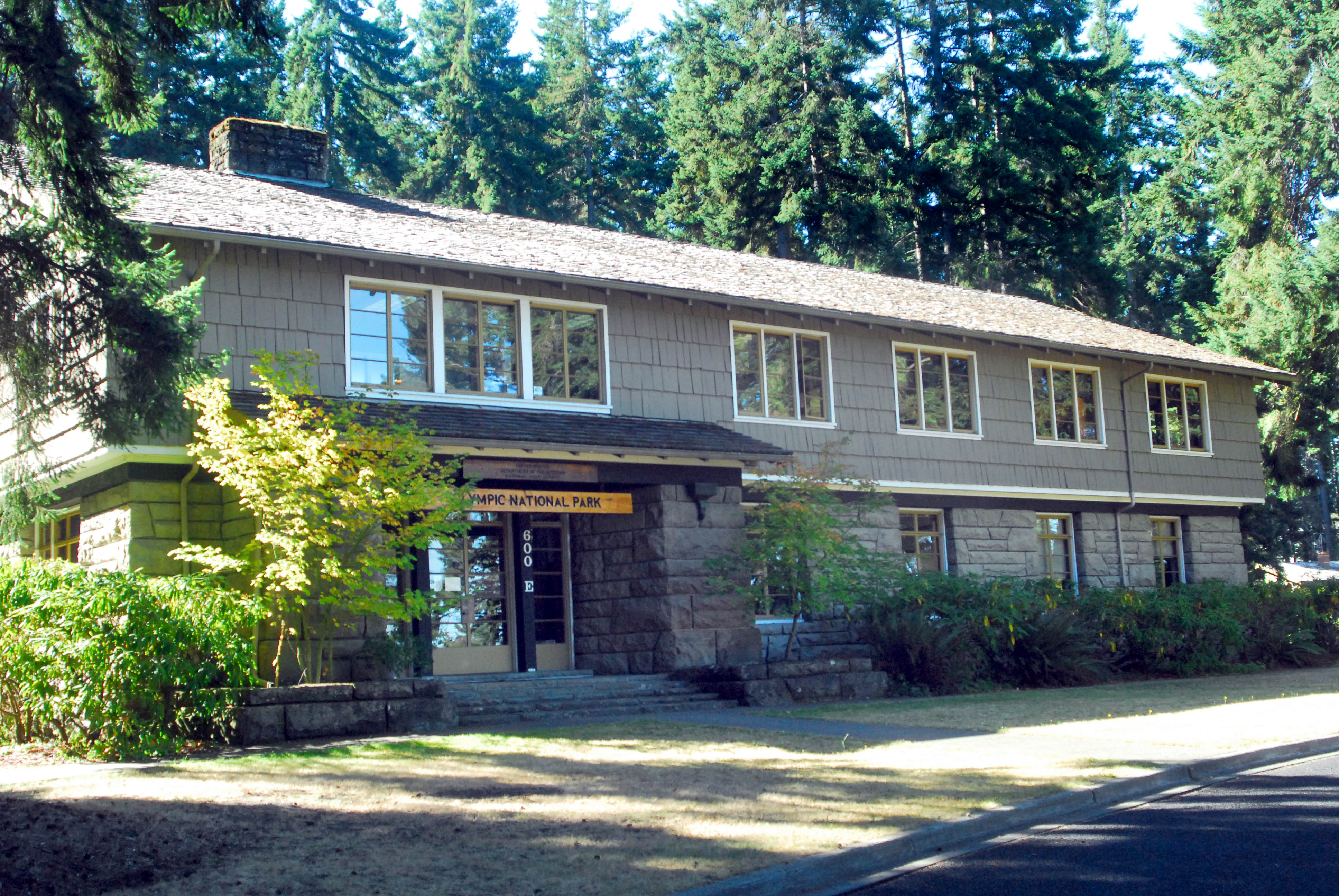 Headquarters for Olympic National Park, Port Angeles, Wash., USA.